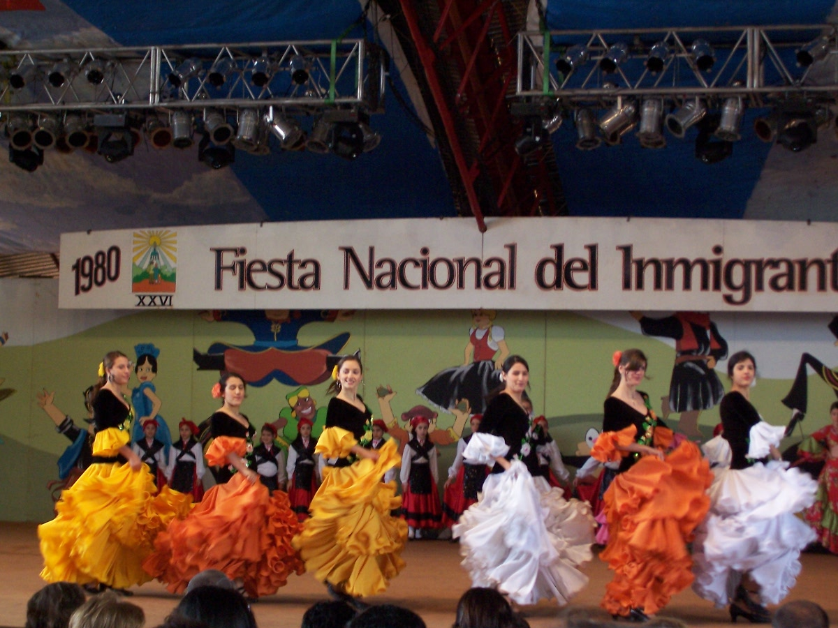 The Spanish ballet, in the greater scene of XXVI Immigrant's National Festival, in Oberá, Misiones, Argentina.